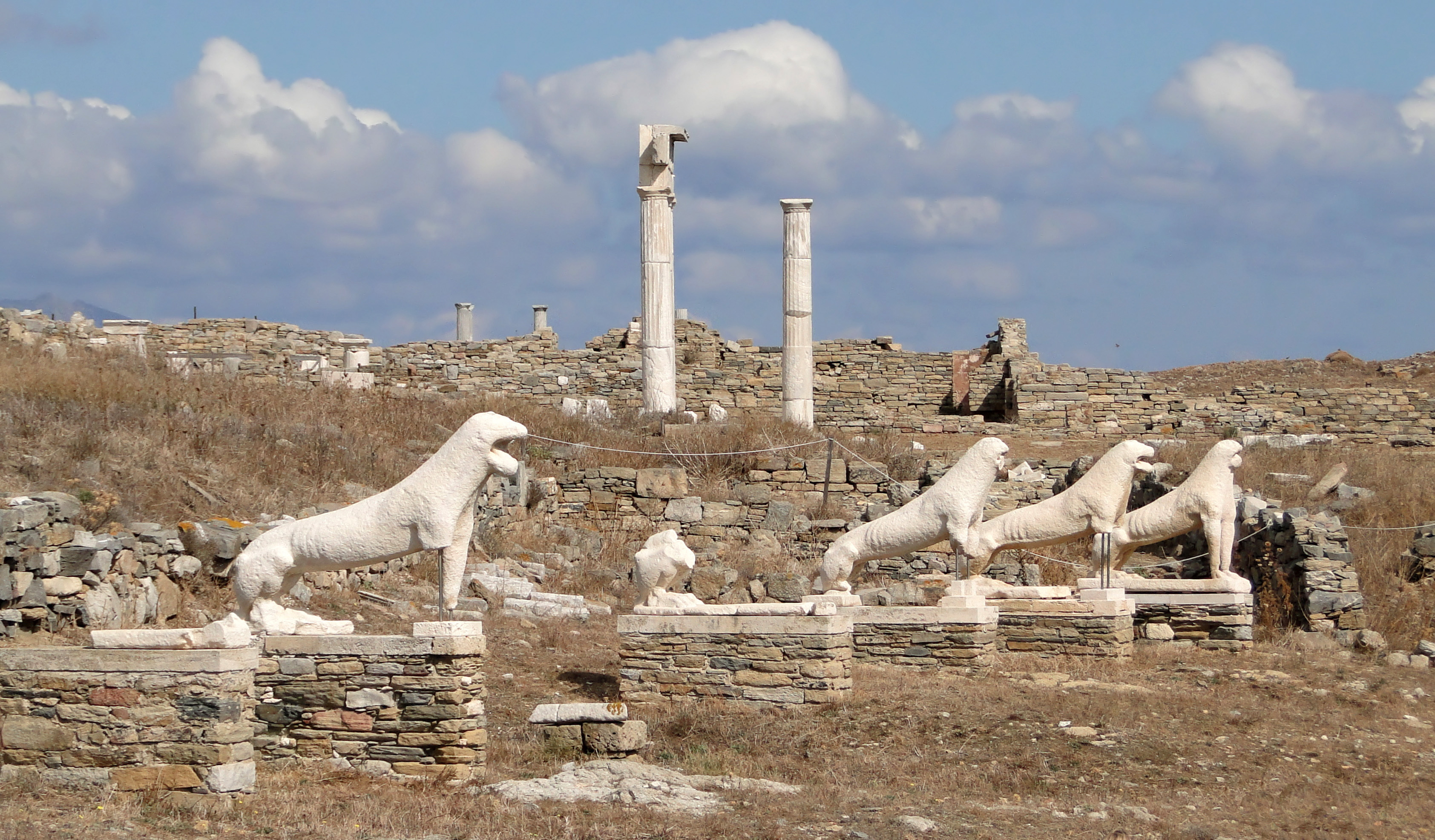 Terrace of the Lions in Delos, Greece